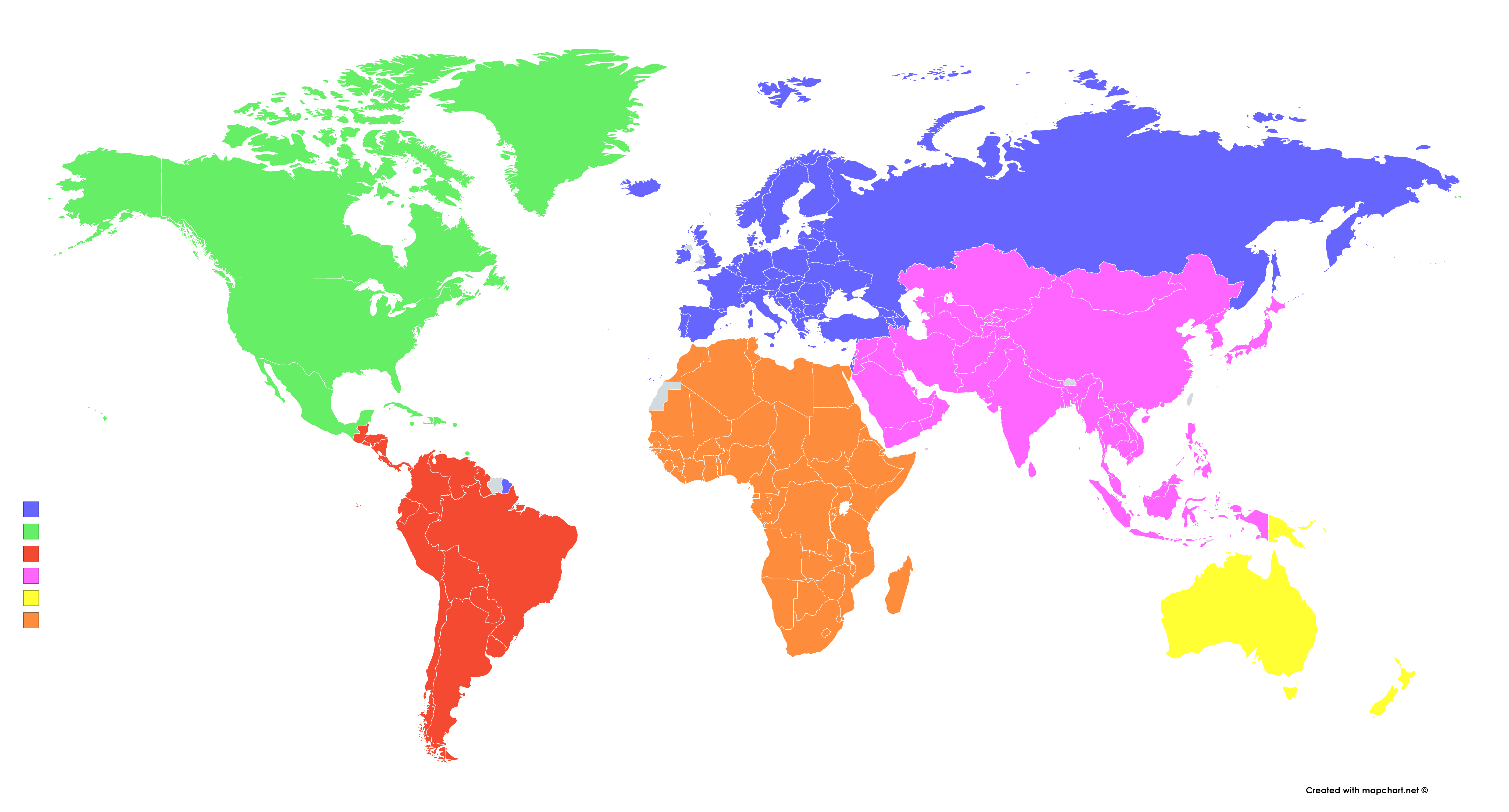 Asia: AHF – Asian Handball Championship Africa: CAHB – African Championship North America and the Caribbean: NACHC South and Central America: SCAHC Oceania: OHF – Nations Cup Europe: EHF – European Championship